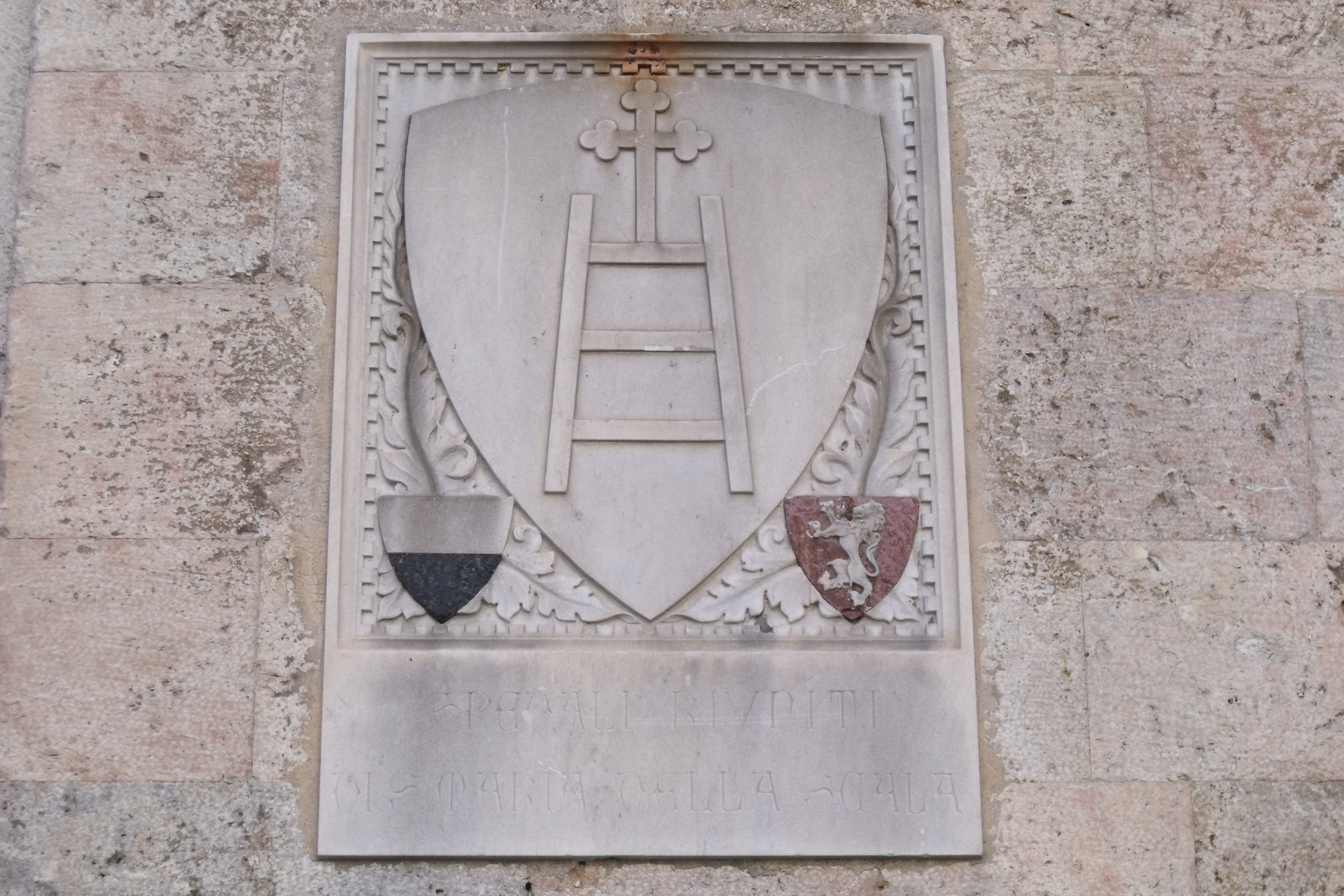 Coats of arms of the Hospital Santa Maria della Scala in Siena, Tuscany, Italy